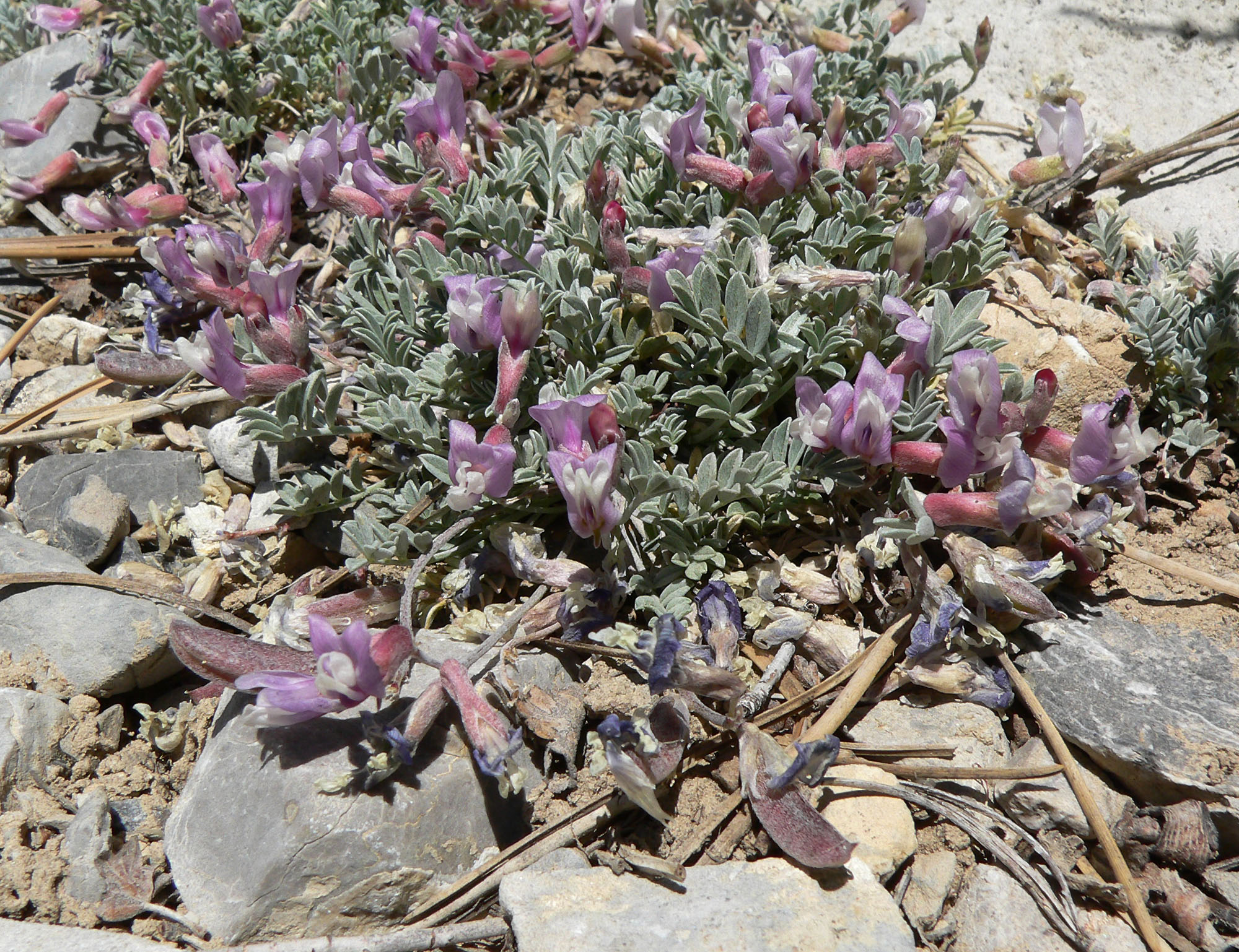 Astragalus calycosus var. calycosus on the ski slope, Lee Canyon, Spring Mountains, southern Nevada (elev. about 2700 m)